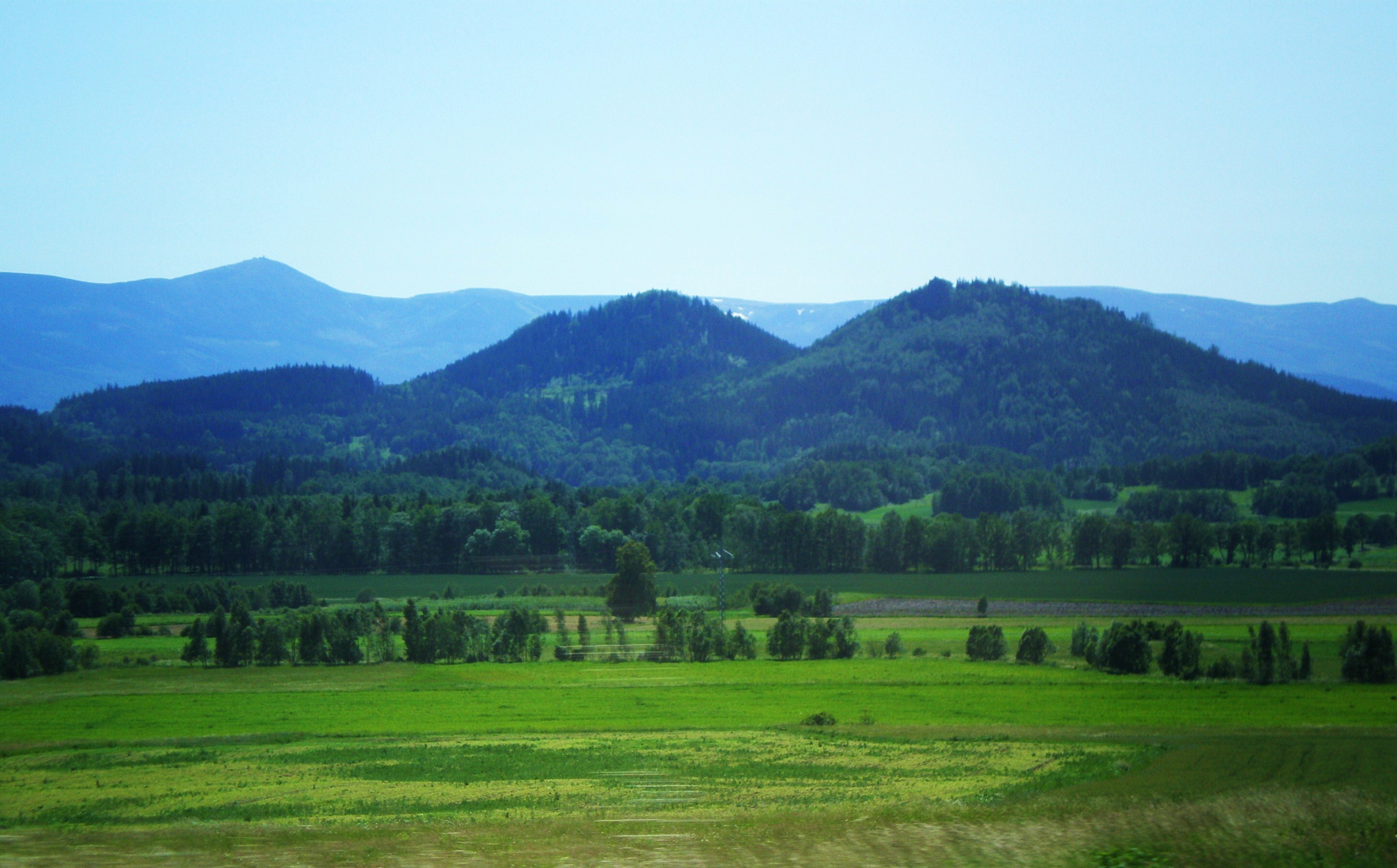 Sokole Mountains and Karkonosze Mountains in Poland